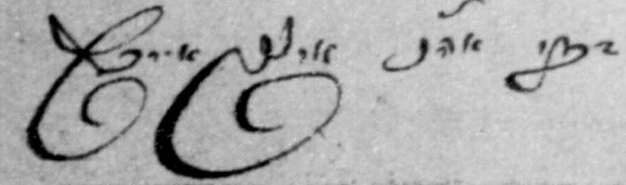 An autograph of Isaac Euchel, on a letter dated 4 September 1794.